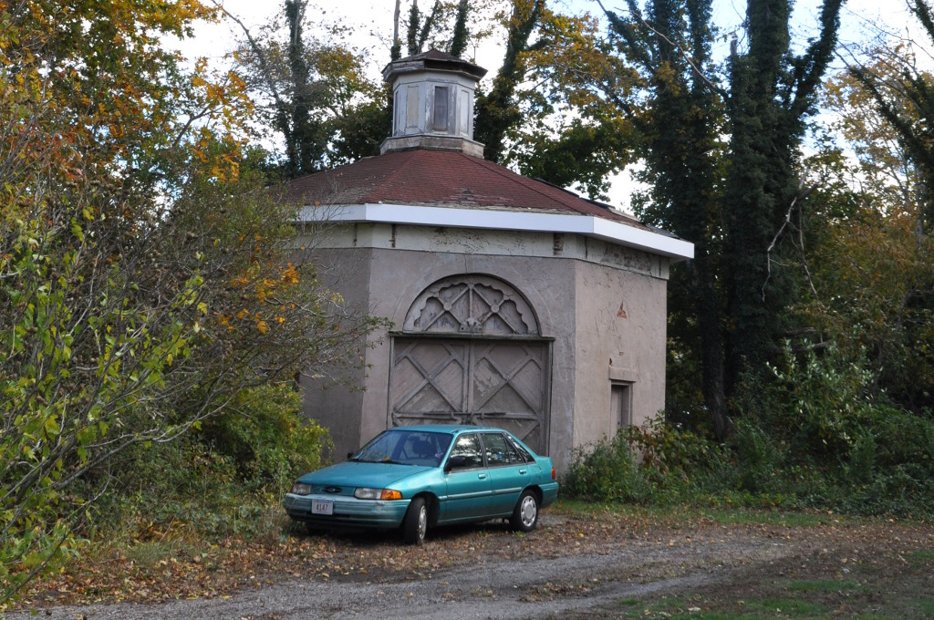 Capt. Rodney J. Baxter House, an octagonal house with octagonal carriage barn, Barnstable (Hyannis), Massachusetts.